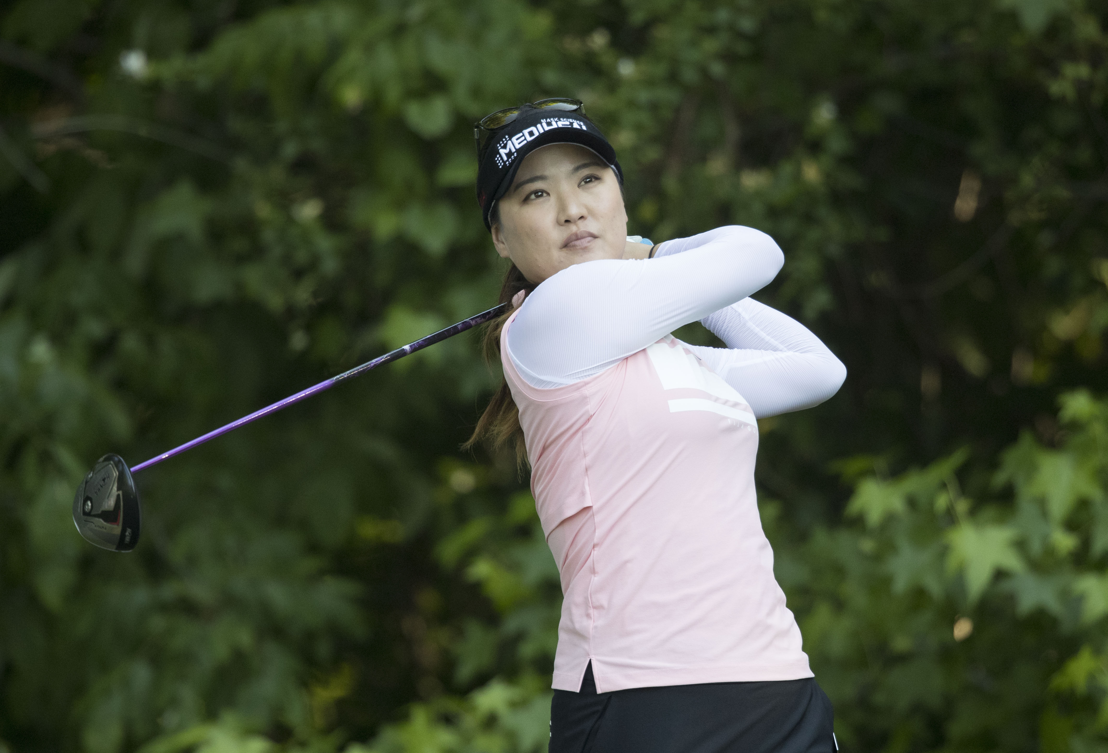 LPGA Kingsmill 2017